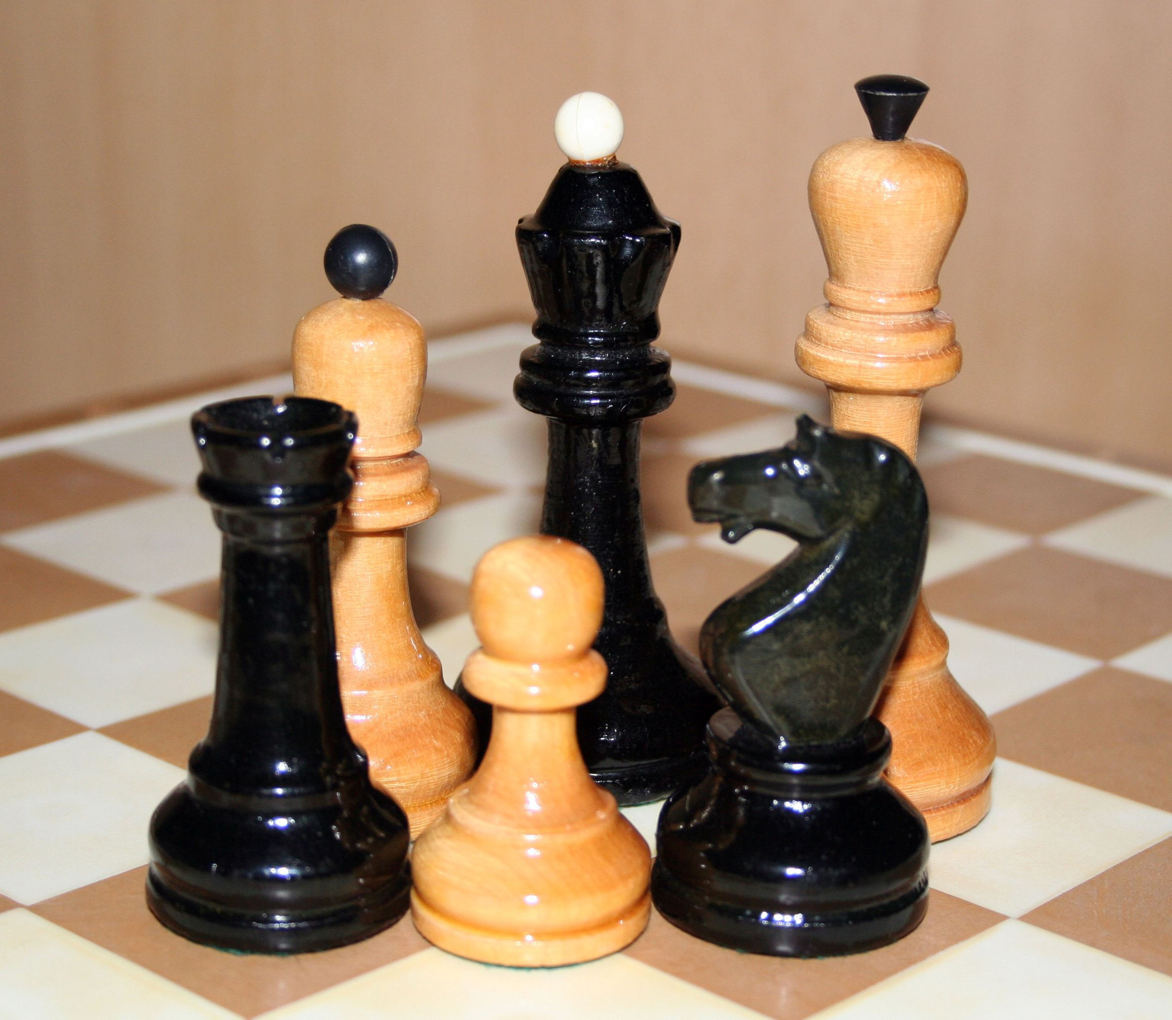 Chess pieces of the USSR – left to right: rook, bishop, pawn, queen, knight and king